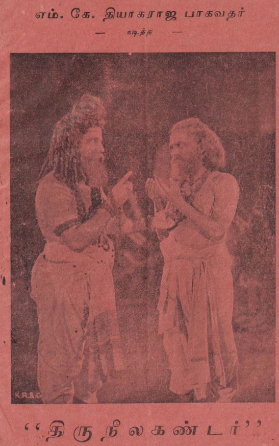 Cover page of 1939 Thiruneelakandar song book